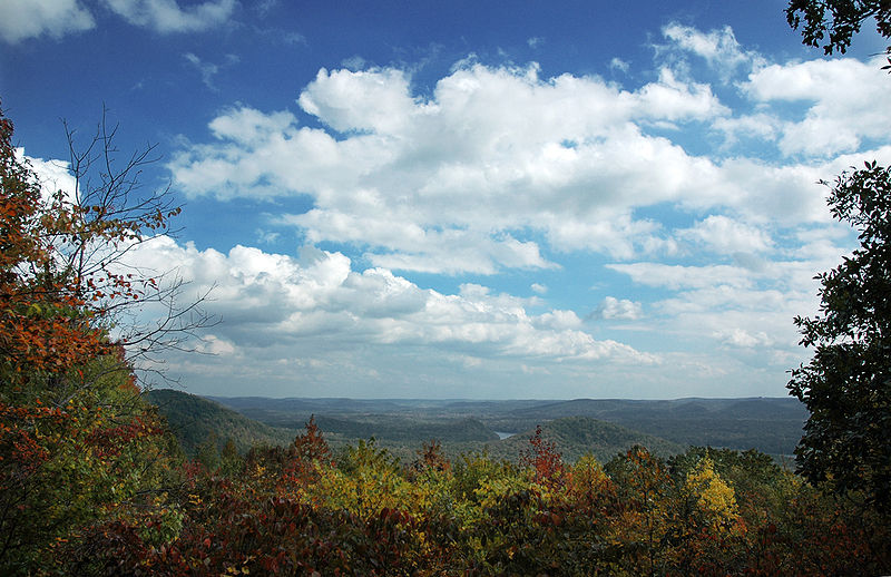 Taken at Morrow Mountain State Park by User:Hathcock in October 2006.